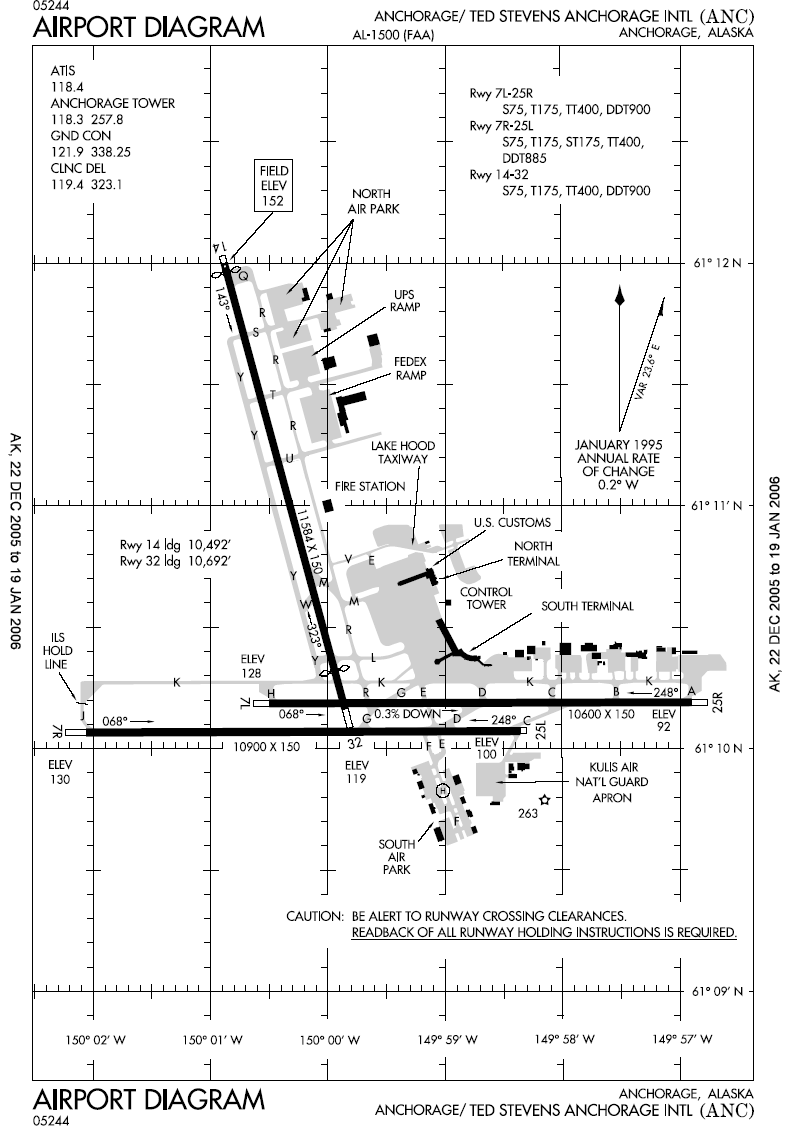 FAA airport diagram for Ted Stevens Anchorage International Airport (ANC) in Anchorage, Alaska, United States.